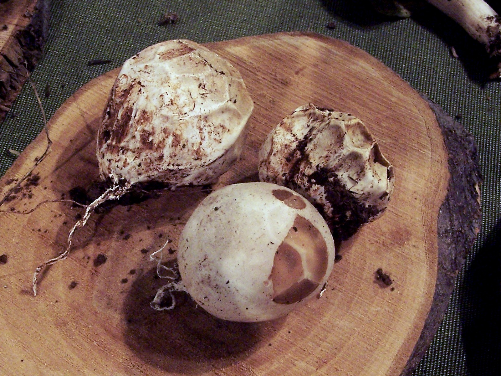 Clathrus ruber eggs